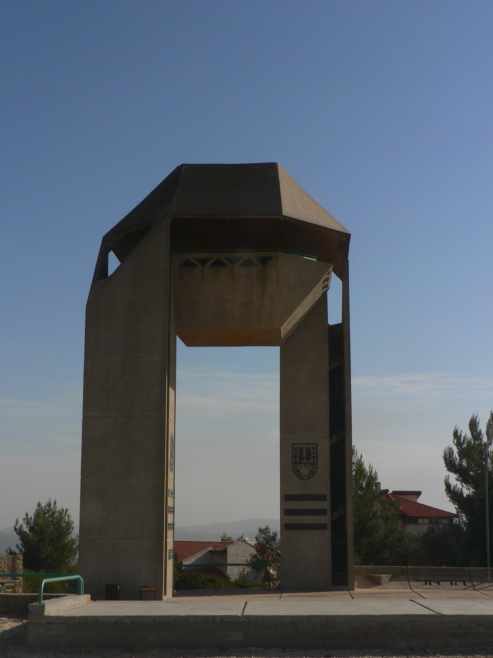 Har Adar = The Radar Hill: Harel Brigade Memorial, Israel גבעת הר אדר - גבעת הרדאר